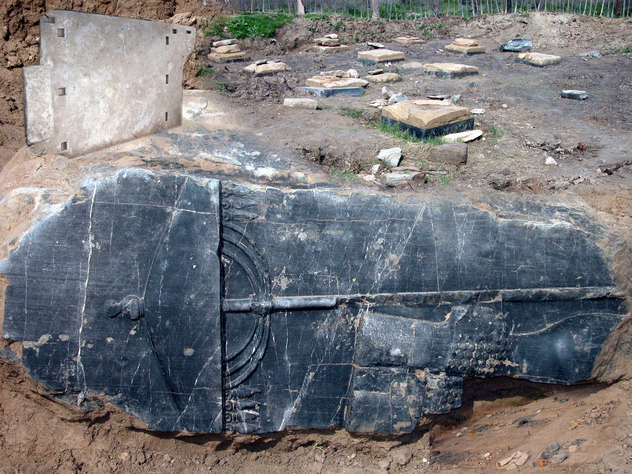 Bardak Siah Doroudgah